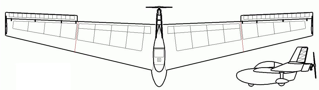 Mitchel-U2 drawing